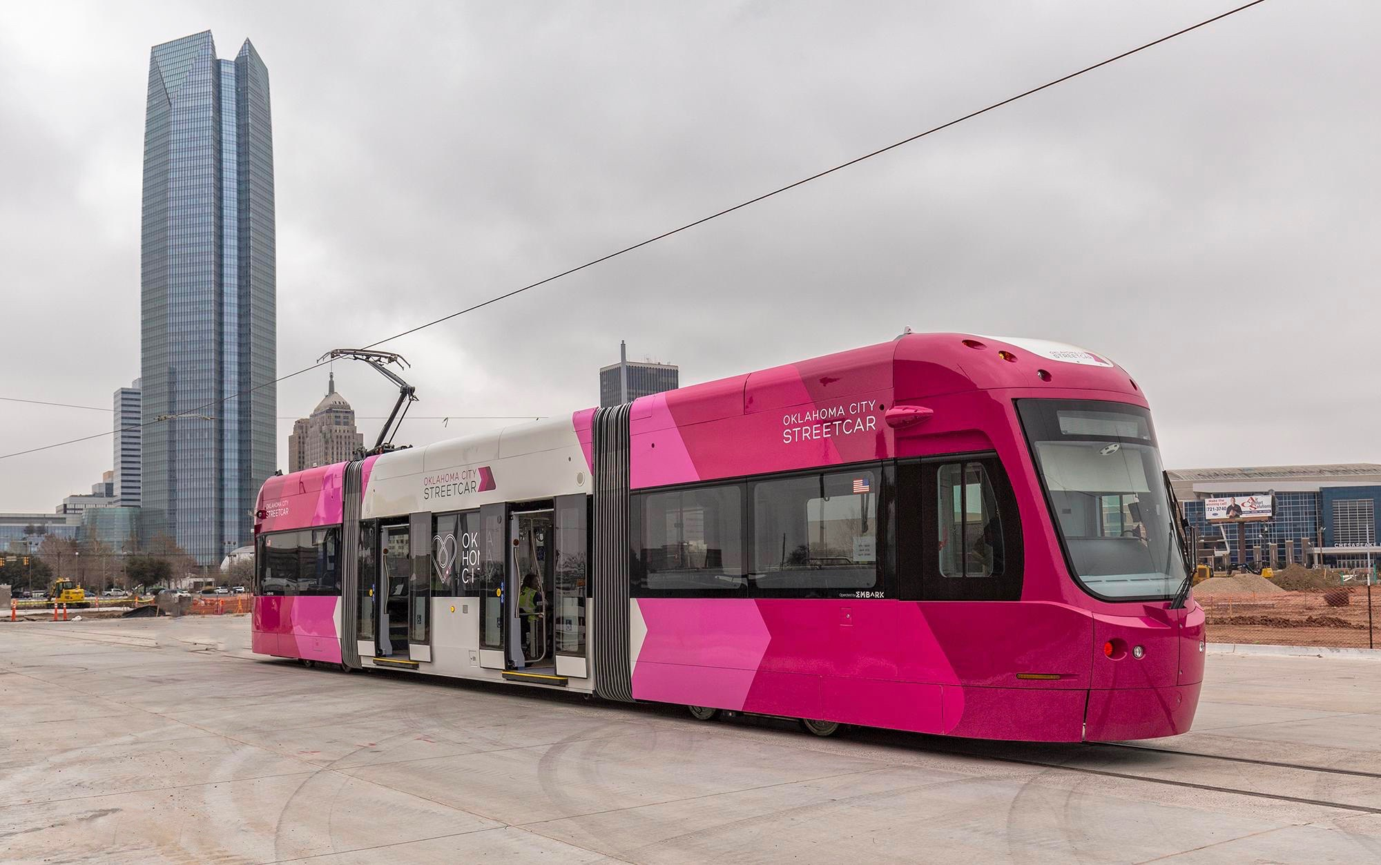 The first Brookville Liberty Modern Streetcar for the new Oklahoma City Streetcar line, which is under construction, during testing. The location is on South Hudson Avenue between SW 3rd Street and SW 4th Street, on a section of track connecting the line with the maintenance facility.